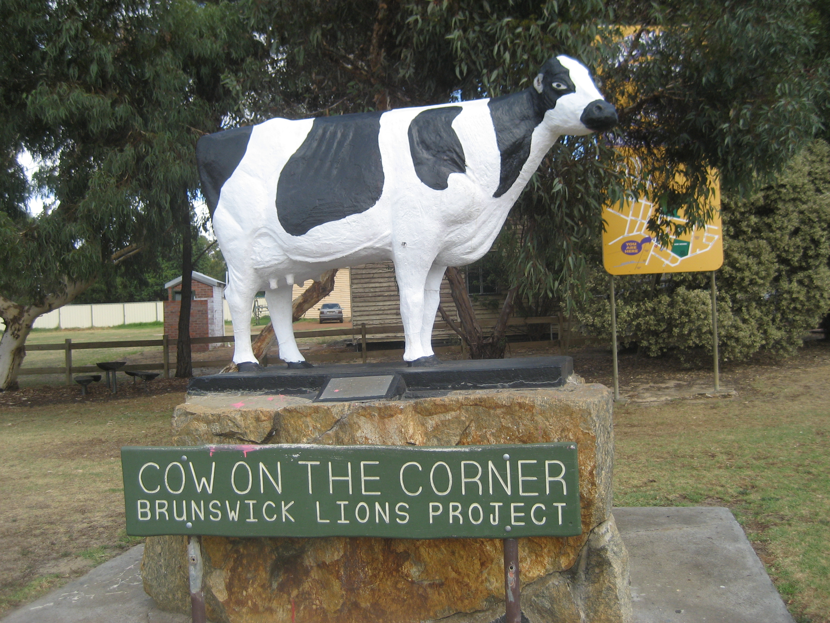 Cow on the Corner, Brunswick, Western Australia